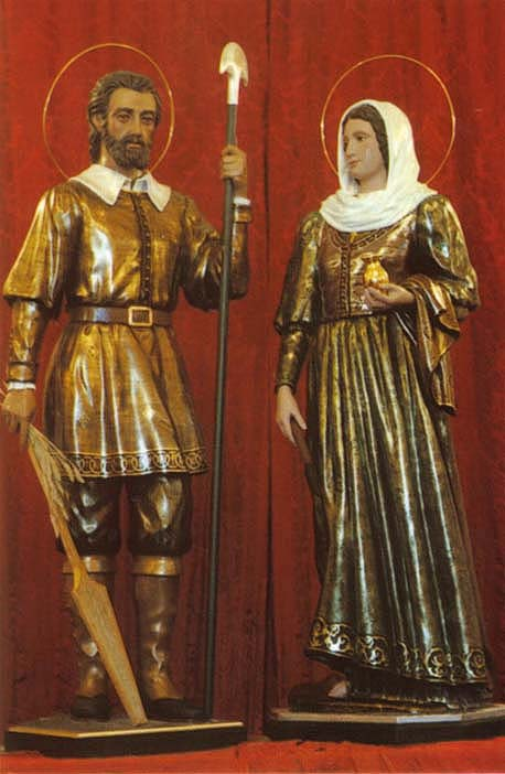 St. Isidor the Farmer and St. Mary de la Cabeza. 18th cent. image, at Madrid